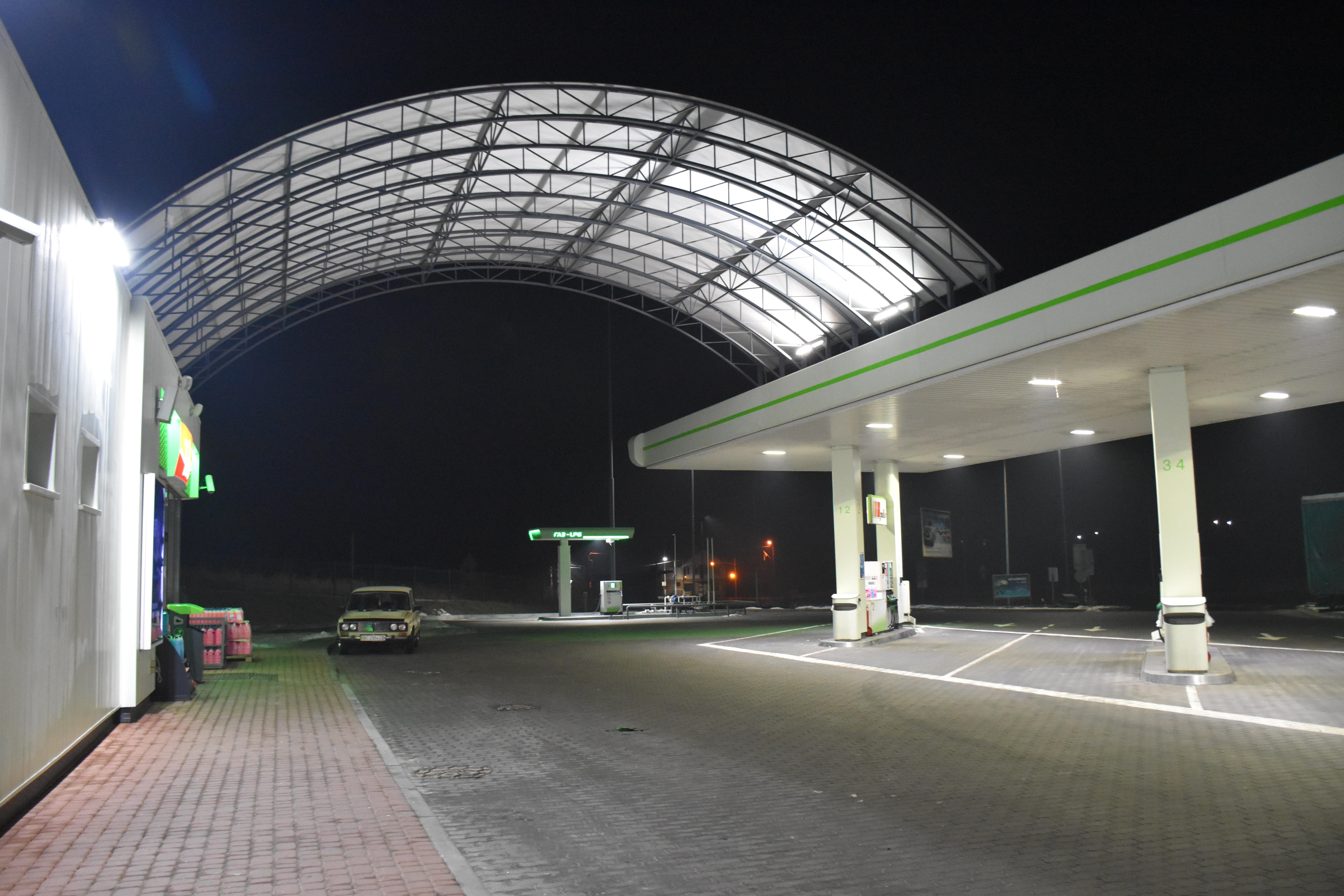 OKKO gasoline filling station at M06 in Pustomyty Raion, Ukraine.